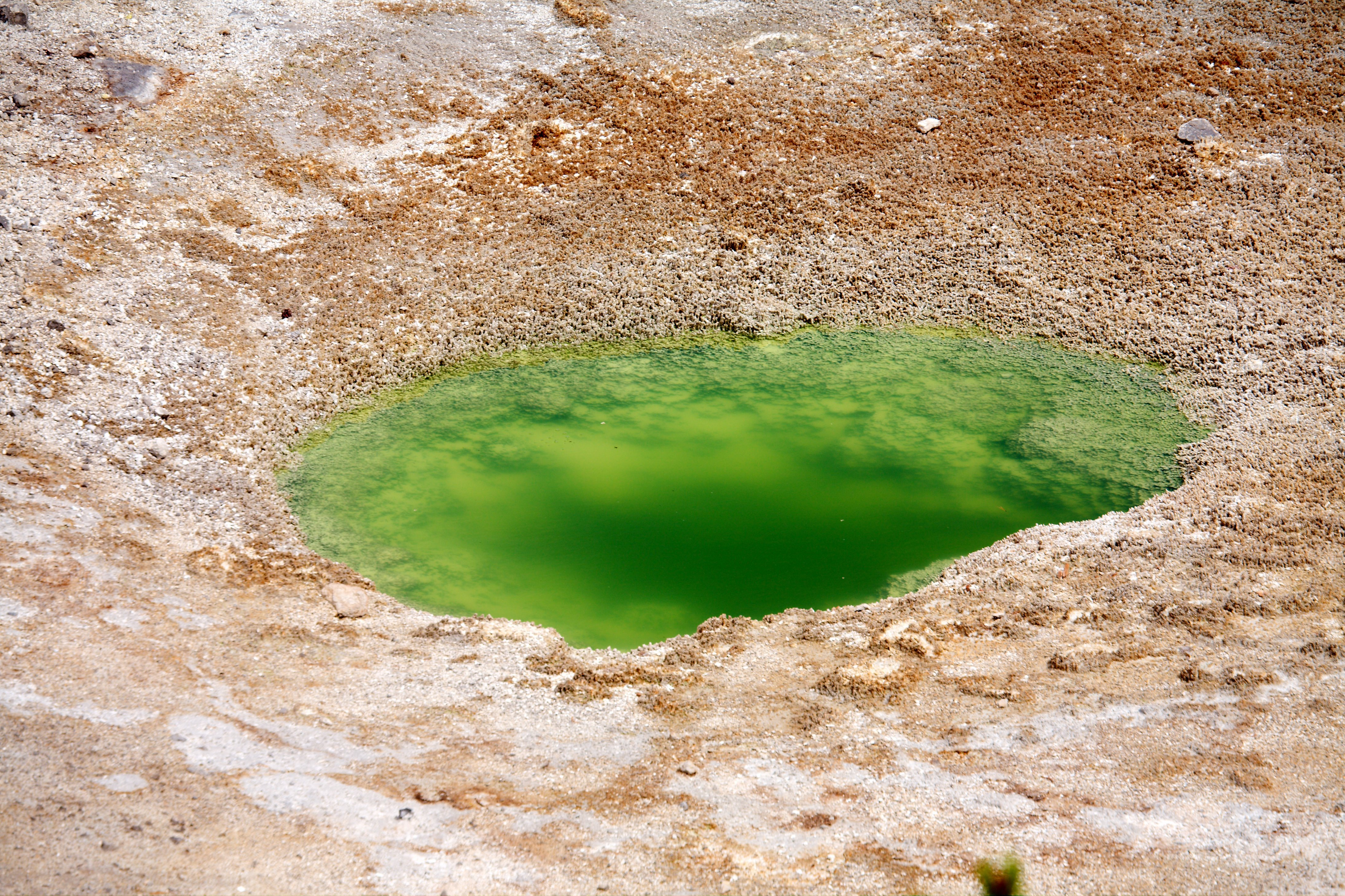 Norris Geyser Basin, Yellowstone